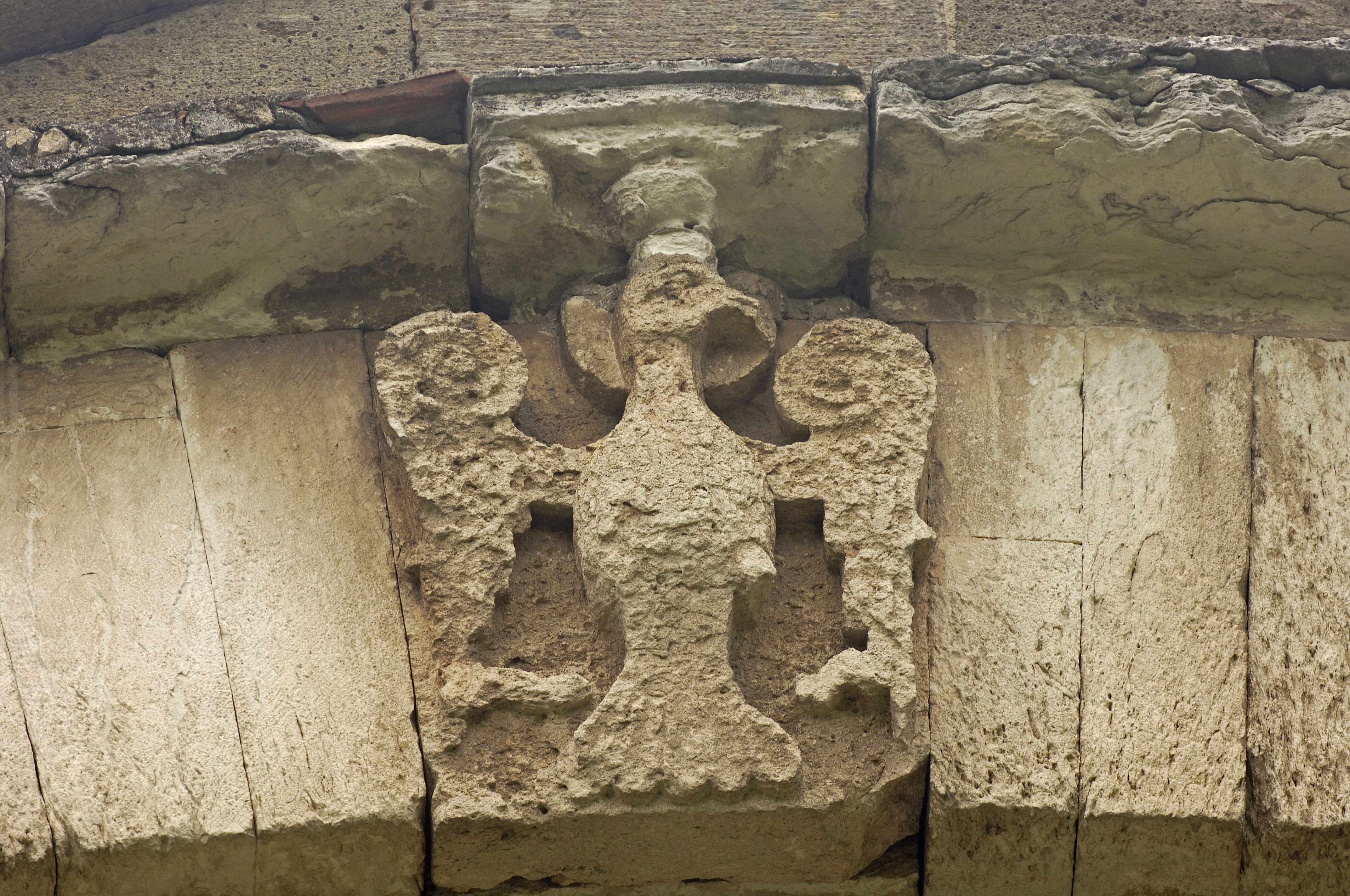 Just an example of some of the decoration on the outside of the building.